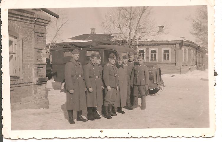 Group photo of soldiers of the Kranken Kraftwagen Zug 27 (17th Panzer Division)